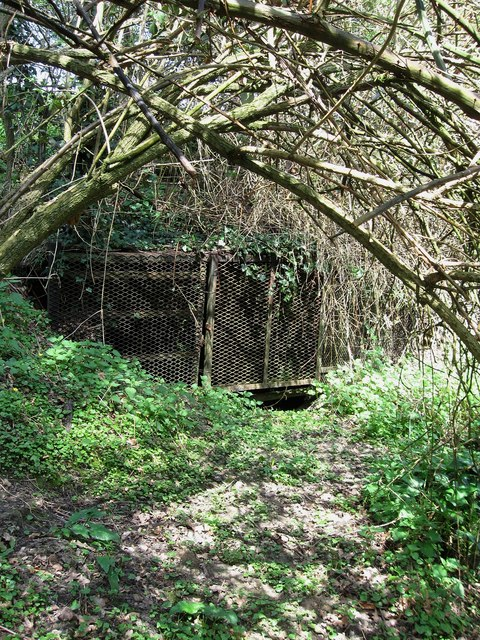 Southern Portal, Hardham Tunnel. All that remains of the southern entrance to Hardham Tunnel constructed in the 1790s to carry the Arun Navigation underneath Hardham. The canal closed in 1889 and gradually began to become overgrown, however, it was still possible to canoe underneath it in 1953. Today the entrance has been blocked and the portal is now behind the metal grills erected to prevent anybody entering. Running water can still be heard though.